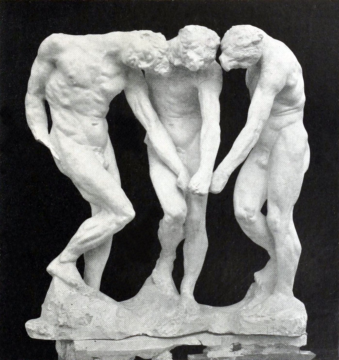 Auguste Rodin, The Three Shades (Les Trois Ombres), for the top of The Gates of Hell, before 1886, plaster, H. 98 cm, W. 91.3 x D. 54.3 cm